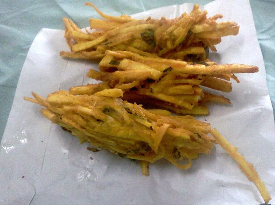 A evening snack available only in Thalasserry,Kannur. Made using tapioca